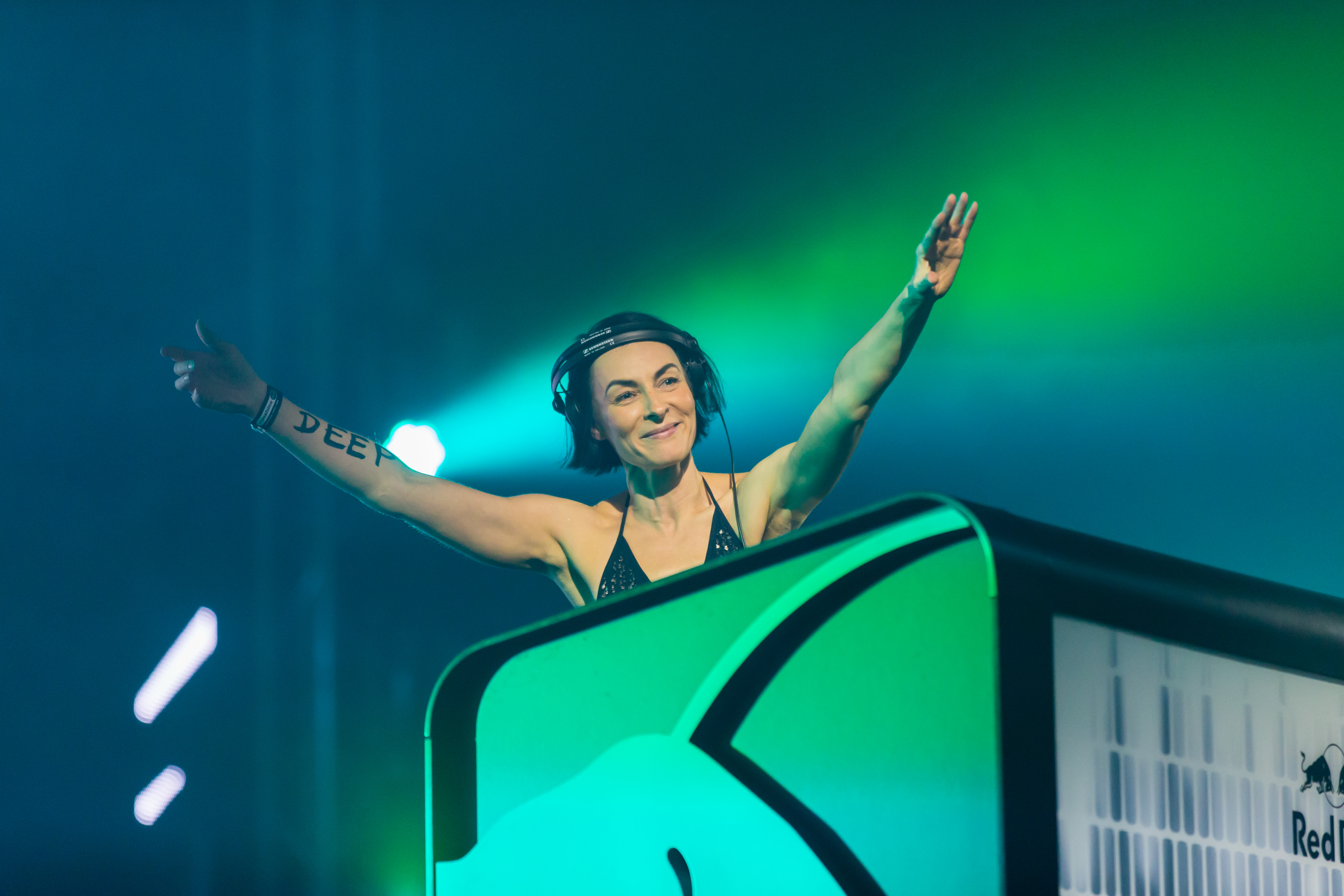 sunshine live "Die 90er - Live On Stage" Maimarkthalle Mannheim DJ Falk, Magic Affair, Captain Hollywood Project, Haddaway, Masterboy, 2 Unlimited, Marusha, Charly Lownoise